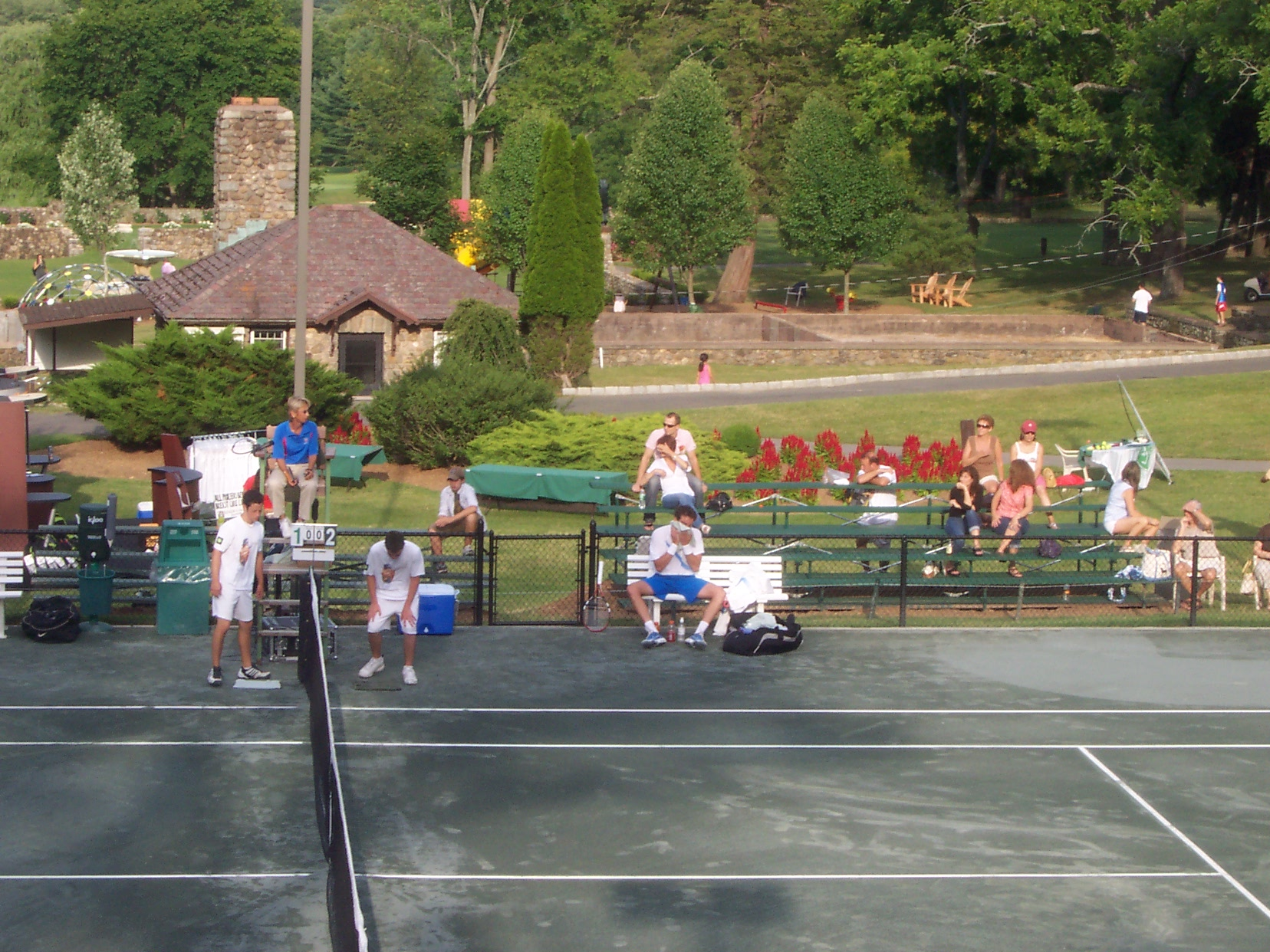 Delwood Country Club In New City, Rockland County, New York.